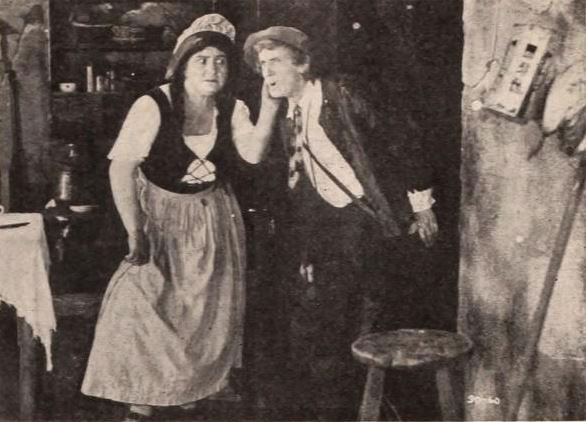 Still from the American fantasy film Rip Van Winkle (1921) with Milla Davenport and Thomas Jefferson, on page 47 of the August 27, 1921 Exhibitors Herald.